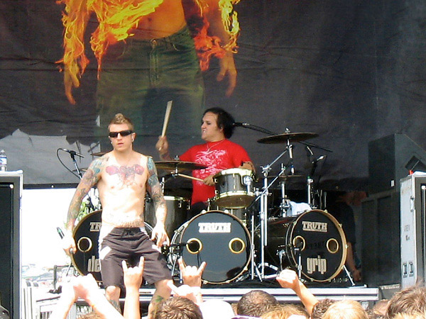 Atreyu performing at Alpine Valley Music Theatre in East Troy, WI on Ozzfest 2006